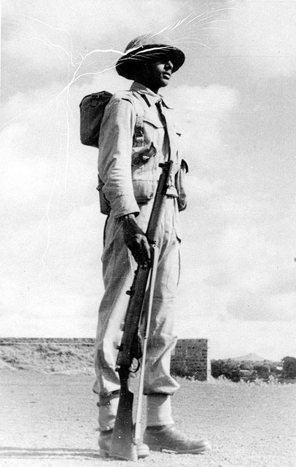 An Indian soldier stands to attention in full battle kit. The rank and file of the regiment, and its Indian officers, were Mahrattas of the Maharashtra region, consisting of the Konkan and Deccan areas of south-western India.